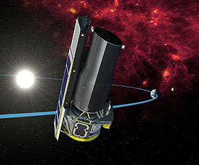 Spitzer